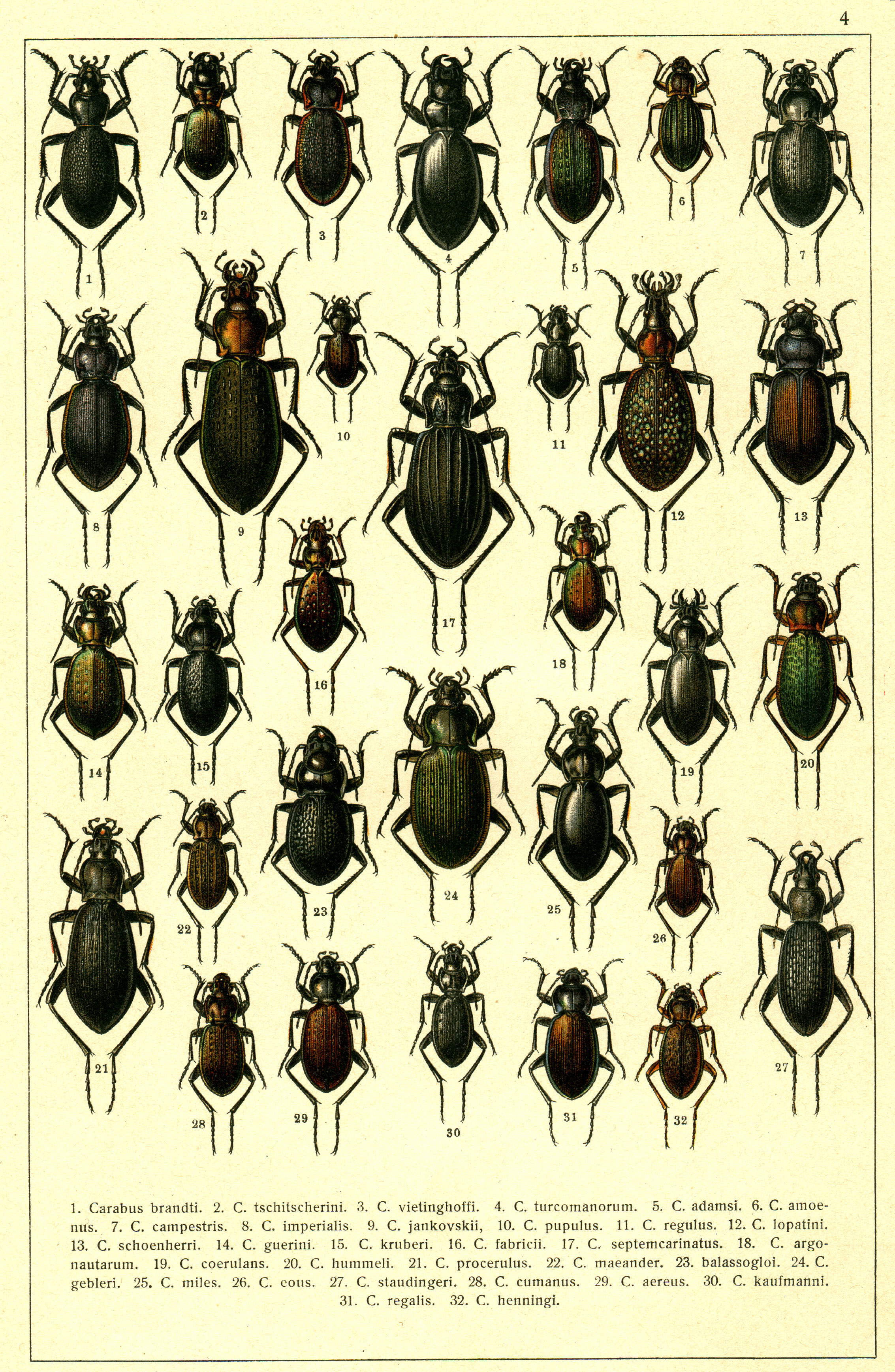 Illustration of monographs Georgiy Jacobson "Beetles Russia and Western Europe". Publisher: Devriena company. The first issue was released in 1905, the last - in 1915. Illustrations were mostly taken from the publication CG Calwers Kaeferbuch. Part of illustrations drawn O. Somina 1. Carabus brandti 2. Carabus tschitscherini 3. Carabus vietinghoffi 4. Carabus turcomanorum 5. Carabus adamsi 6. Carabus amoenus 7. Carabus campestris 8. Carabus imperialis 9. Carabus jankovskii 10. Carabus pupulus 11. Carabus regulus 12. Carabus lopatini 13. Carabus schoenherri 14. Carabus guerini 15. Carabus kruberi 16. Carabus fabricii 17. Carabus septemcarinatus 18. Carabus argonautarum 19. Carabus coerulans 20. Carabus hummeli 21. Carabus procerulus 22. Carabus maeander 23. Carabus balassogloi 24. Carabus gebleri 25. Carabus miles 26. Carabus eous 27. Carabus staudingeri 28. Carabus cumanus 29. Carabus aeneus 30. Carabus kaufmanni 31. Carabus regalis 32. Carabus henningi